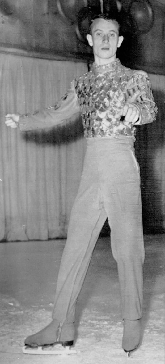 1962 Wire Photo 3 Sequence spinning figure skater Ronnie Robertson Ice Capades